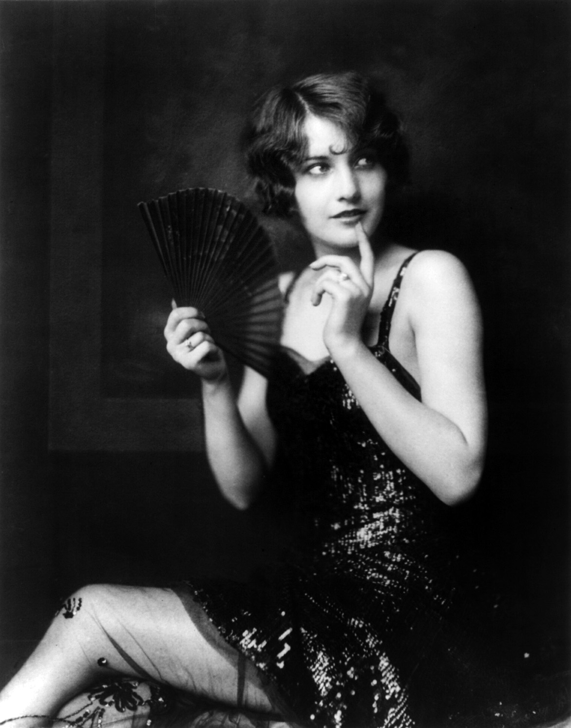 Future Hollywood star Barbara Stanwyck, three-quarter length portrait, seated, turned to the left, holding fan.